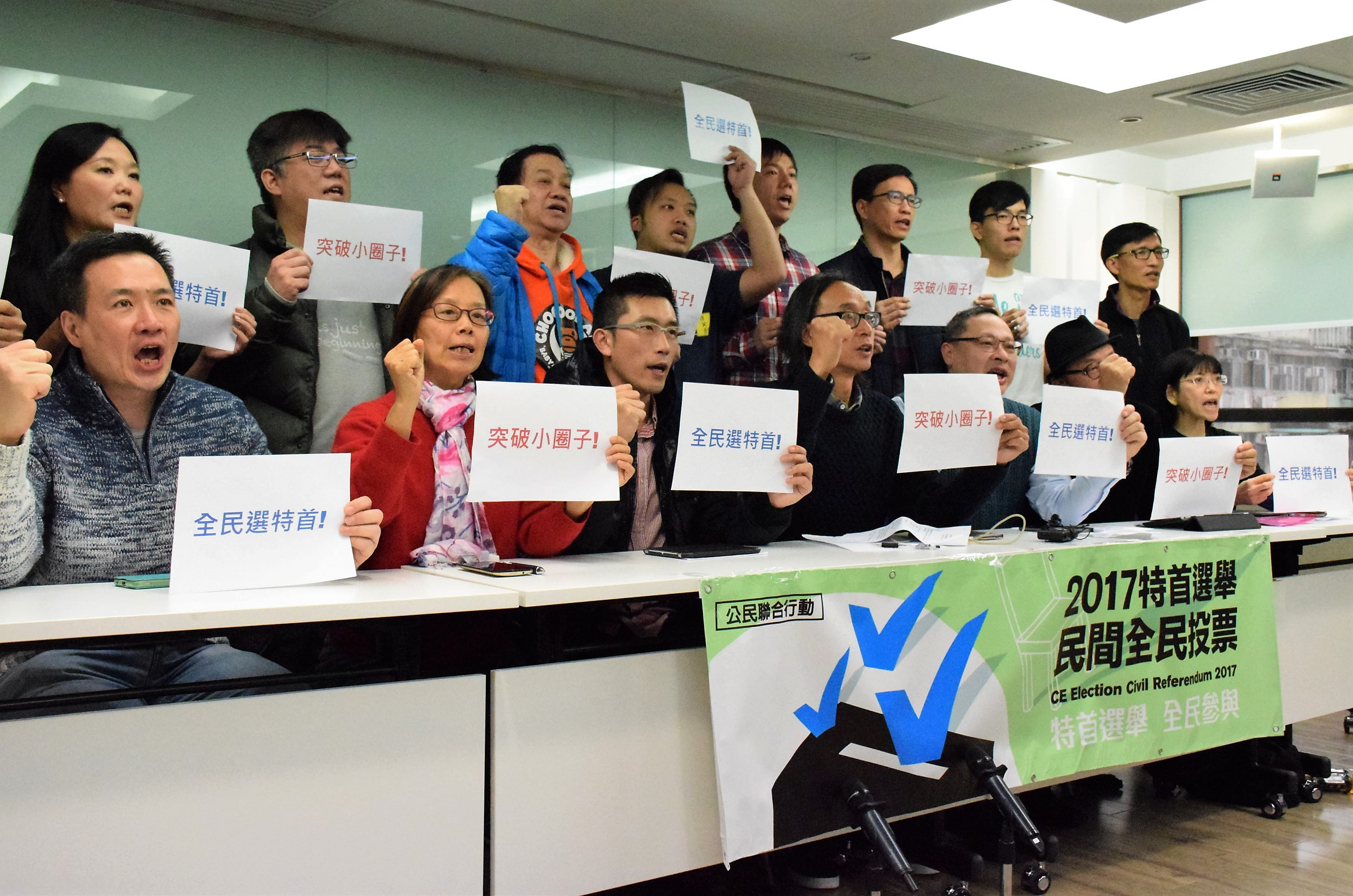 Protesting for the referendeum in 2017 CE Election